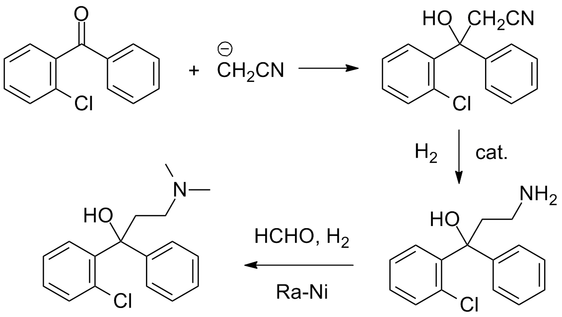 R. Lorenz and H. Henecka, U. S. Patent 3,031,377 (1962).